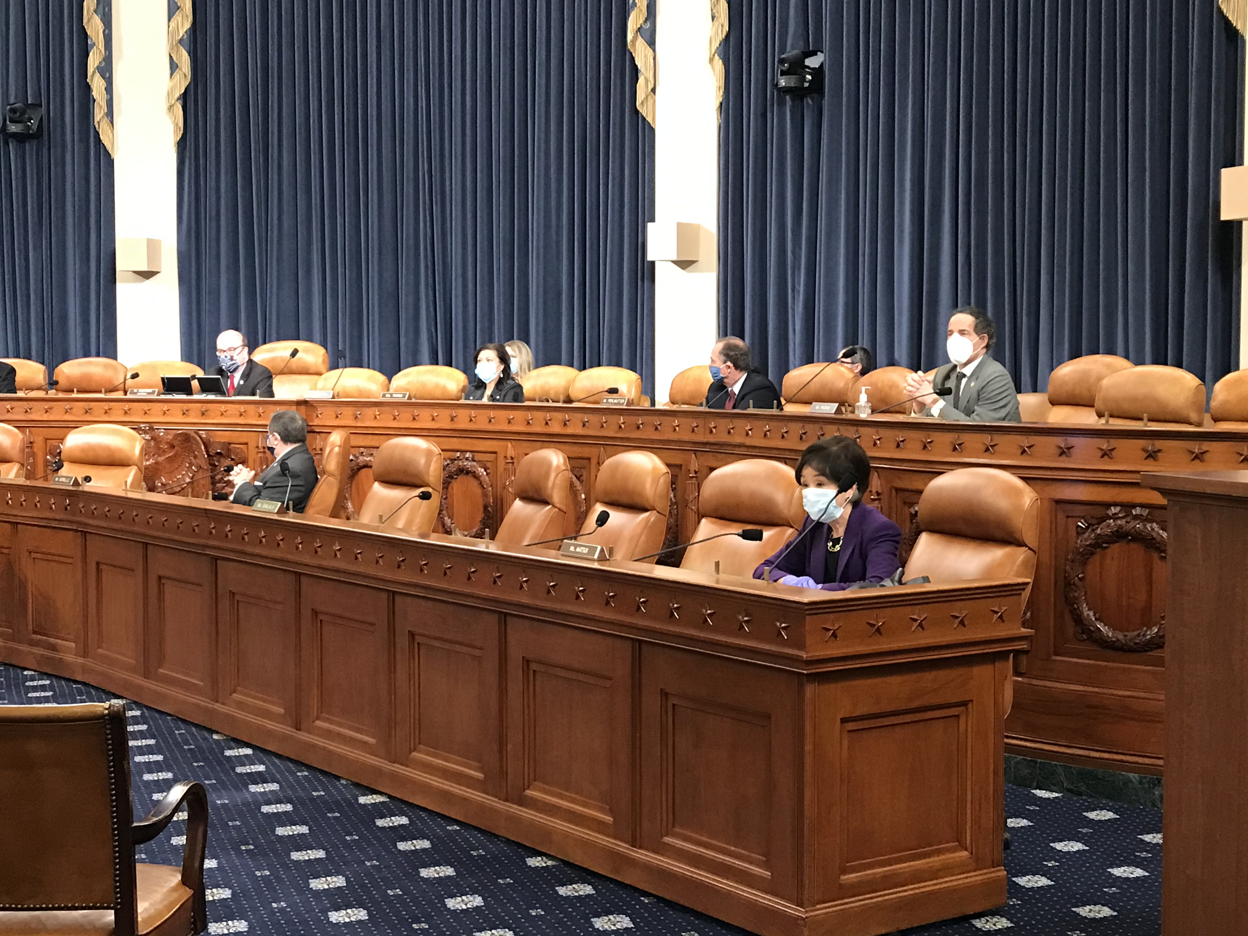 Today I took up my temporary post in the Rules Committee in the first Congressional hearing since the #COVID19 outbreak. Taking the cautious steps of wearing masks and social distancing we continue to work to get the American people a transparent response to this crisis.